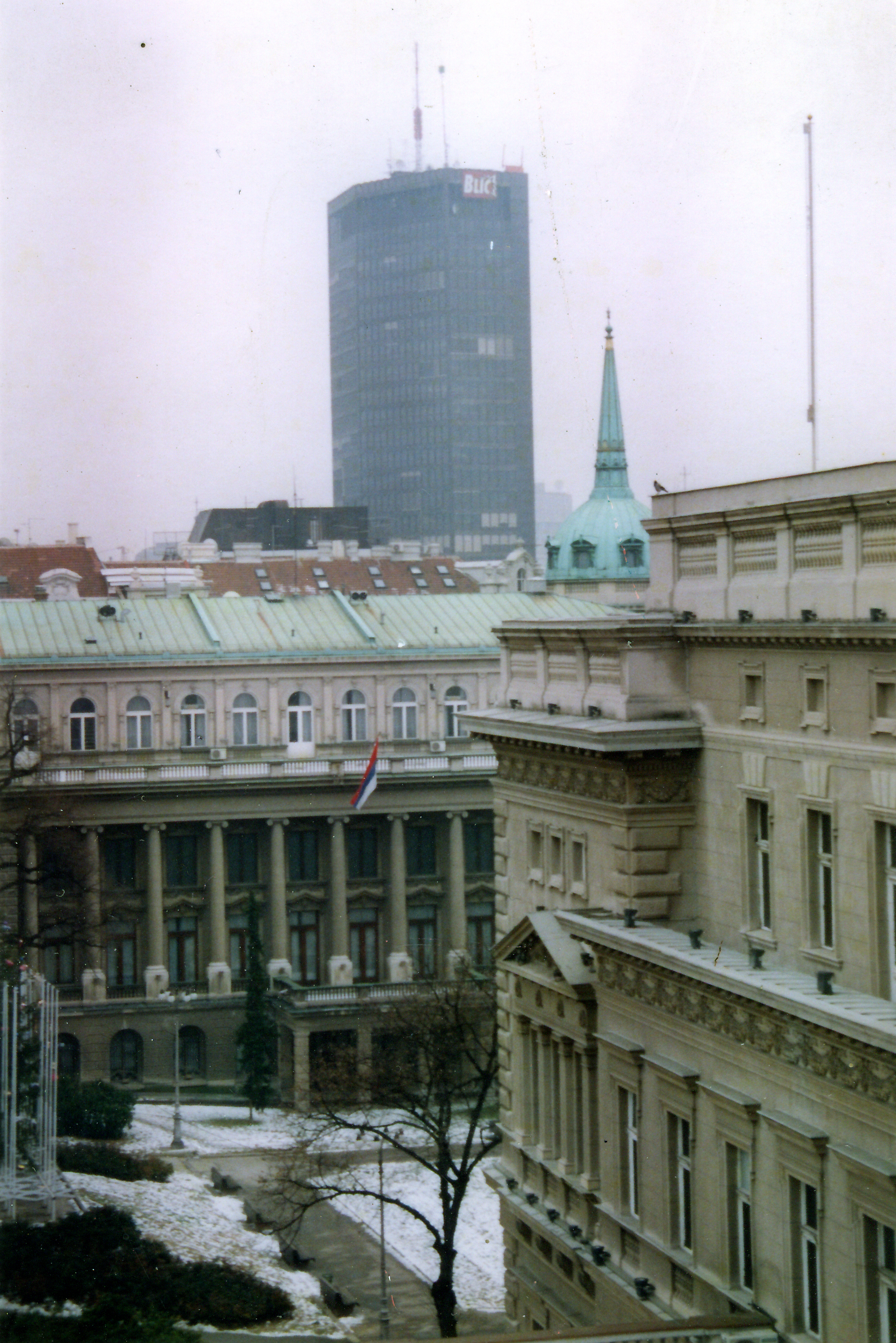 The Old Palace building, which now houses the City Hall of Belgrade. In the background there is "Beograđanka" (the Belgrade girl) which used to be the tallest building in Belgrade